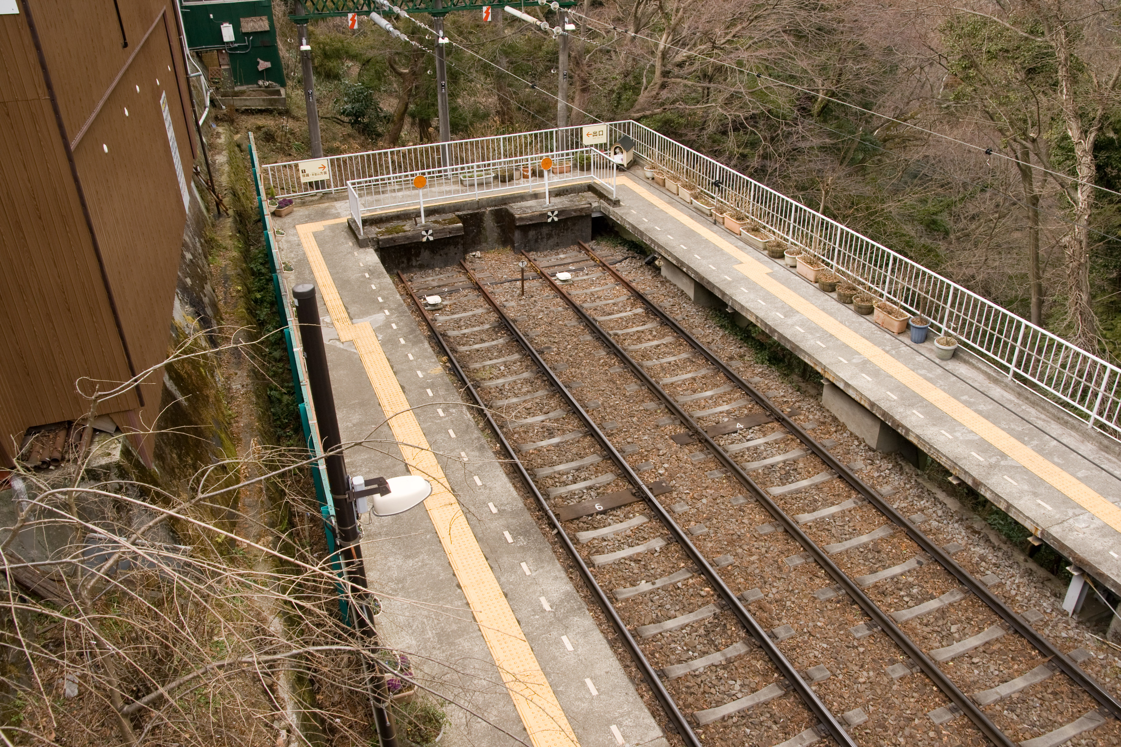 Ōhiradai Station on Hakone Tozan Line, Hakone Town, Kanagawa Pref., Japan.